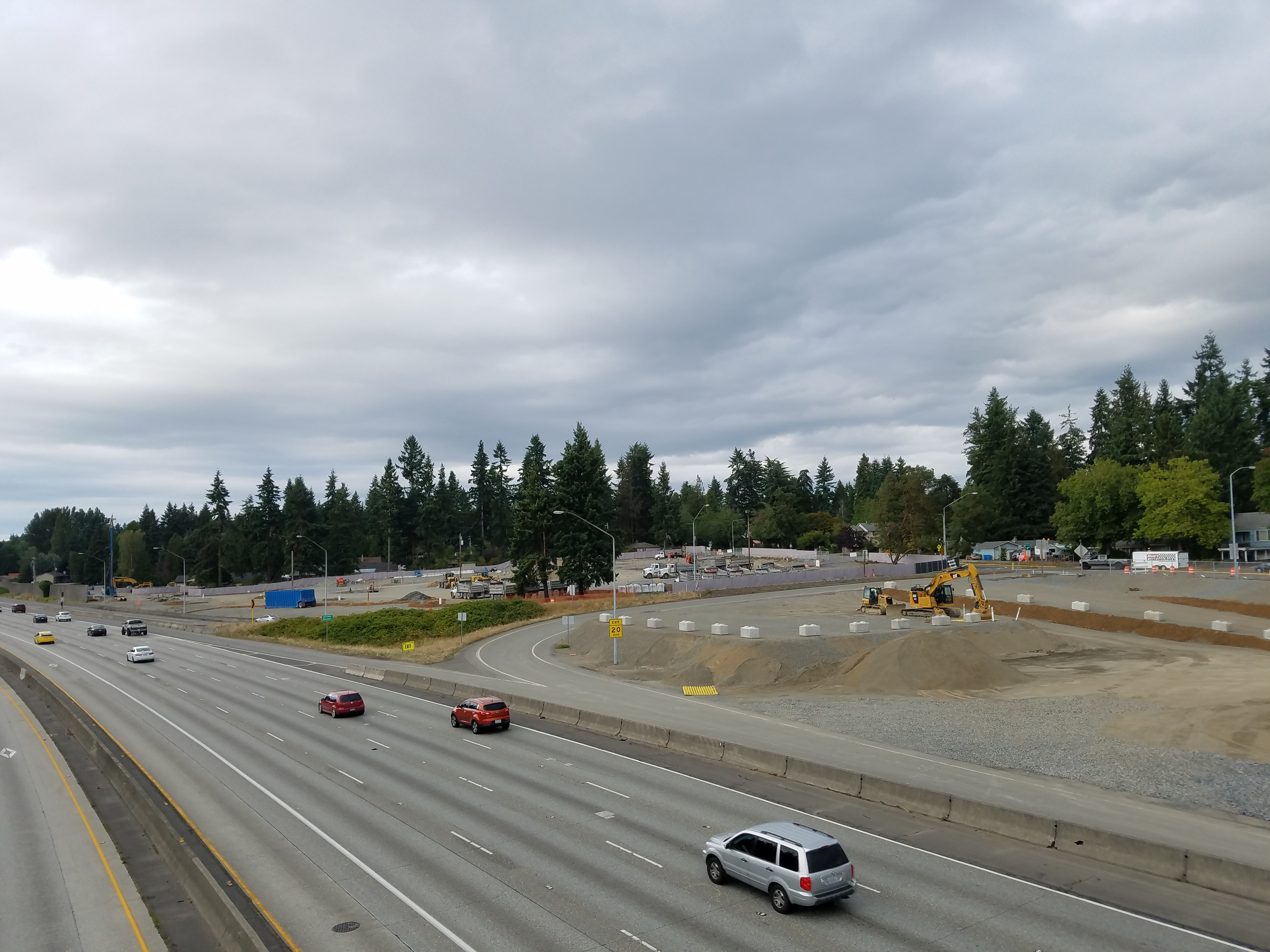 The Shoreline South/145th Link Light Rail station in the Seattle area, during the early stages of construction in mid-2019.